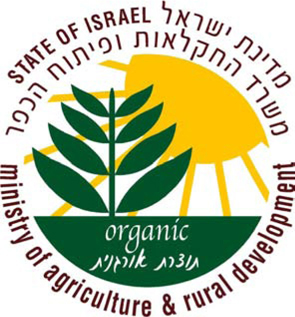 The Uniform Organic Logo by the Israeli law for the Regulation of Organic Produce, 5765-2005